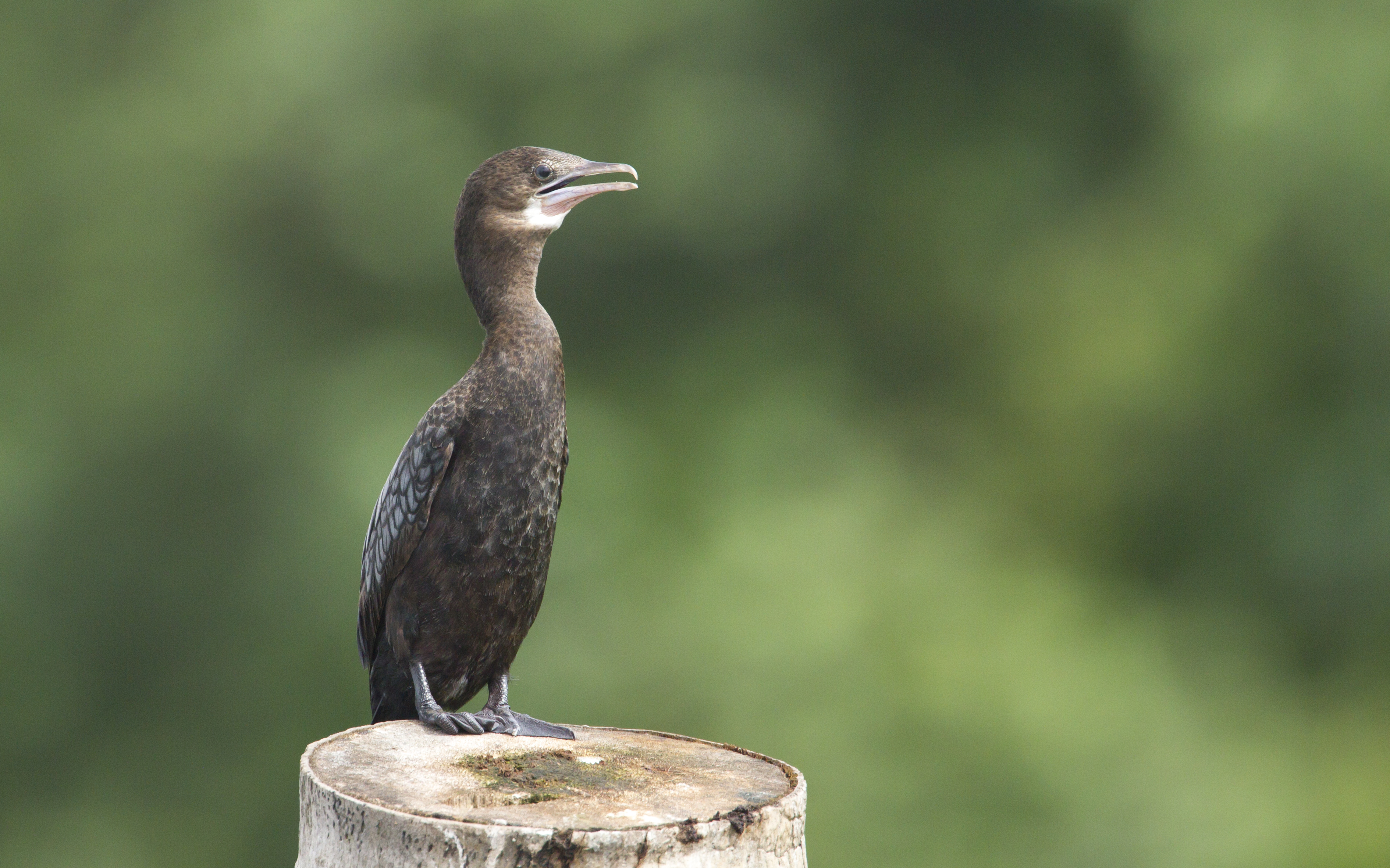 Little Cormorant perched at Pathiramanal Bird Sancturay in Kerala, India